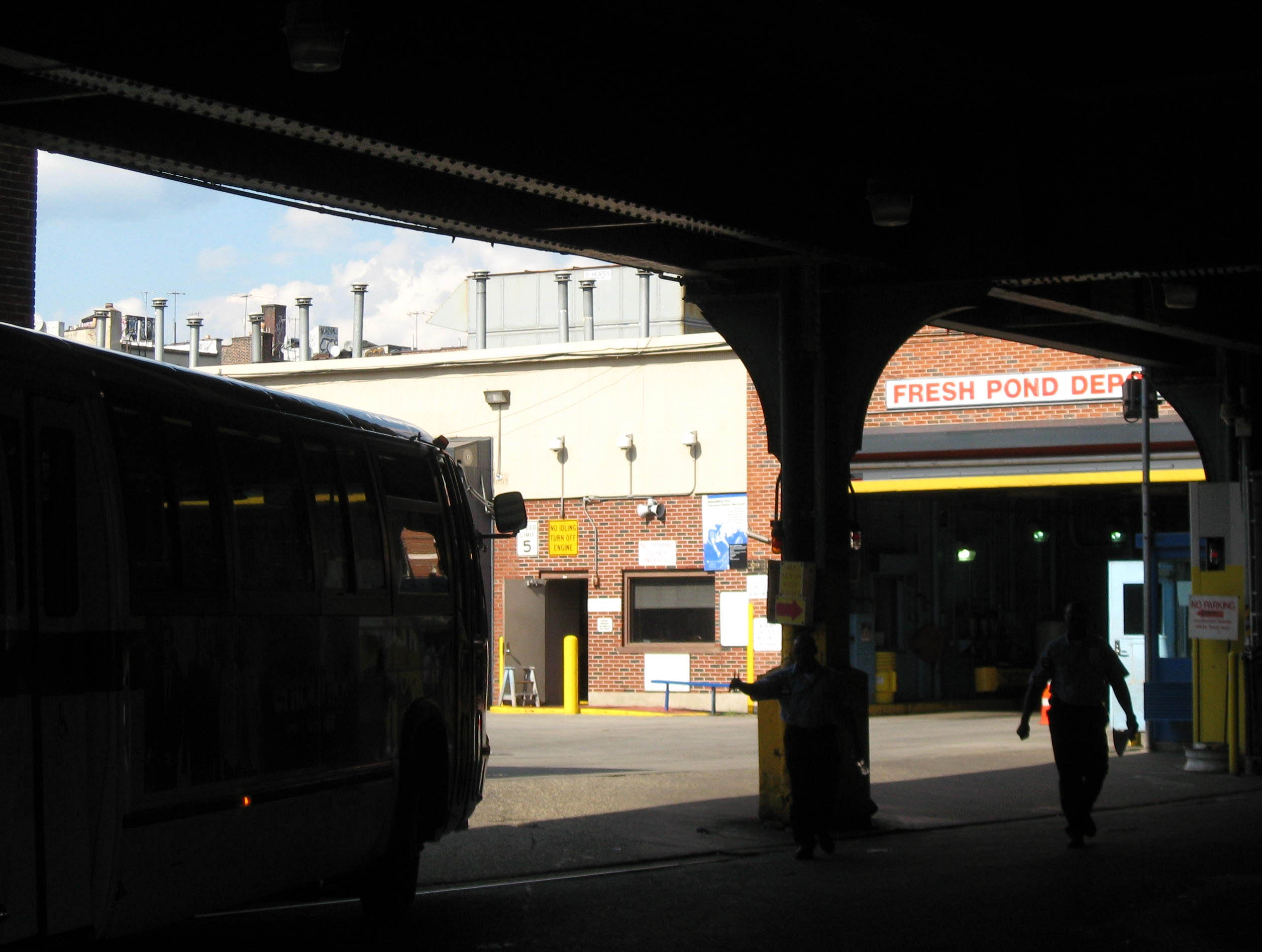 Looking east into Fresh_Pond_Bus_Depot#Fresh_Pond_Depot on a sunny afternoon as seen from underneath File:Frech Pond Rd BMT sta jeh.JPG.